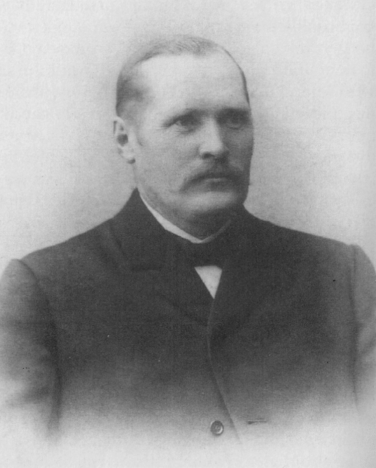 Photograph of the Finnish politician Kustaa Jalkanen (1862–1921).